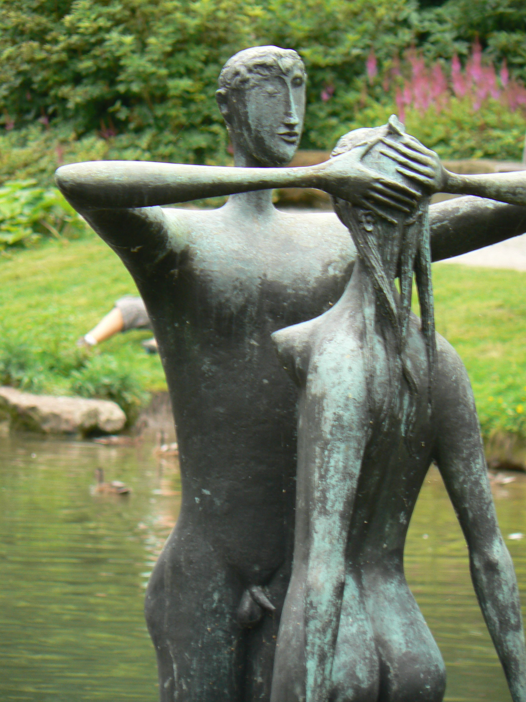 sculpture Cantico dei Cantici (1957) by Marcello Mascherini in the sculpturepark Paracelsus-Klinik in Marl/Germany